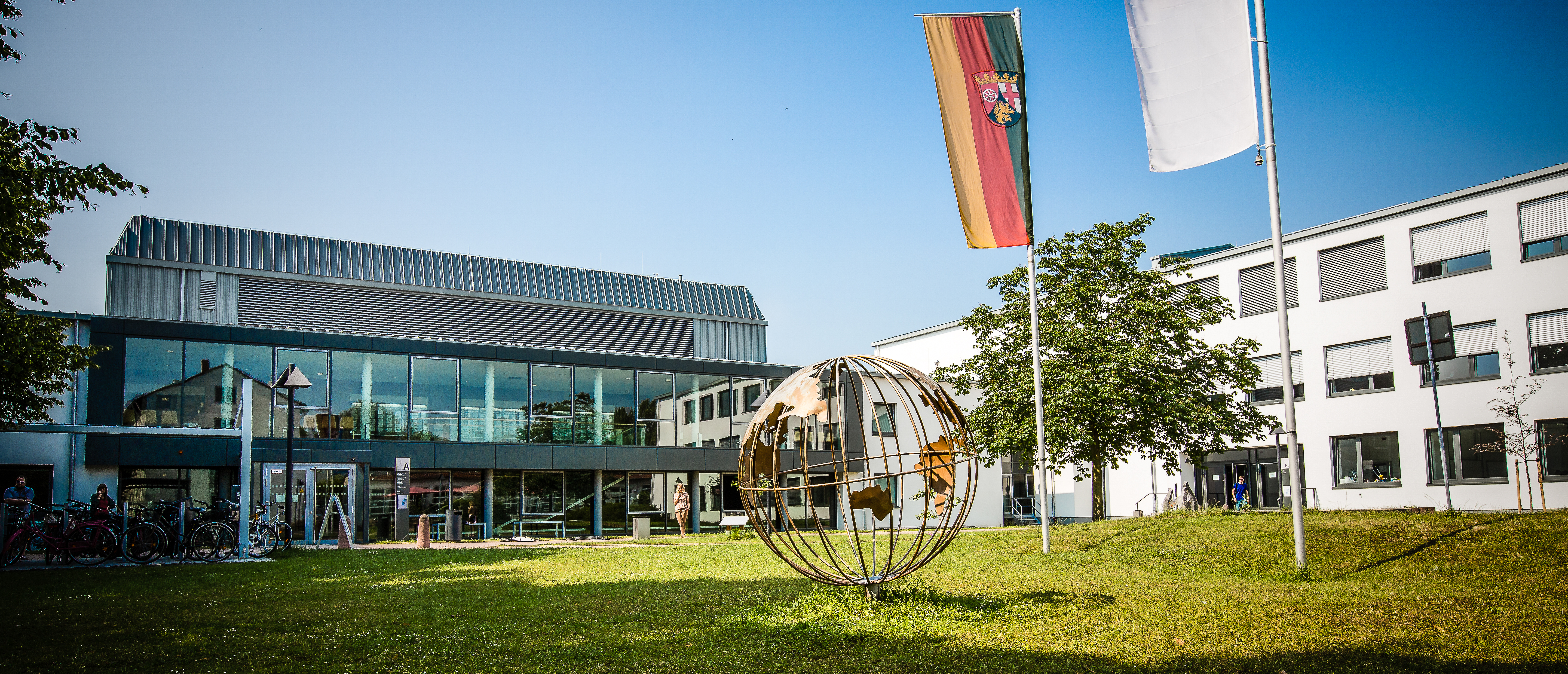 Hochschule Worms, Campus with Building A